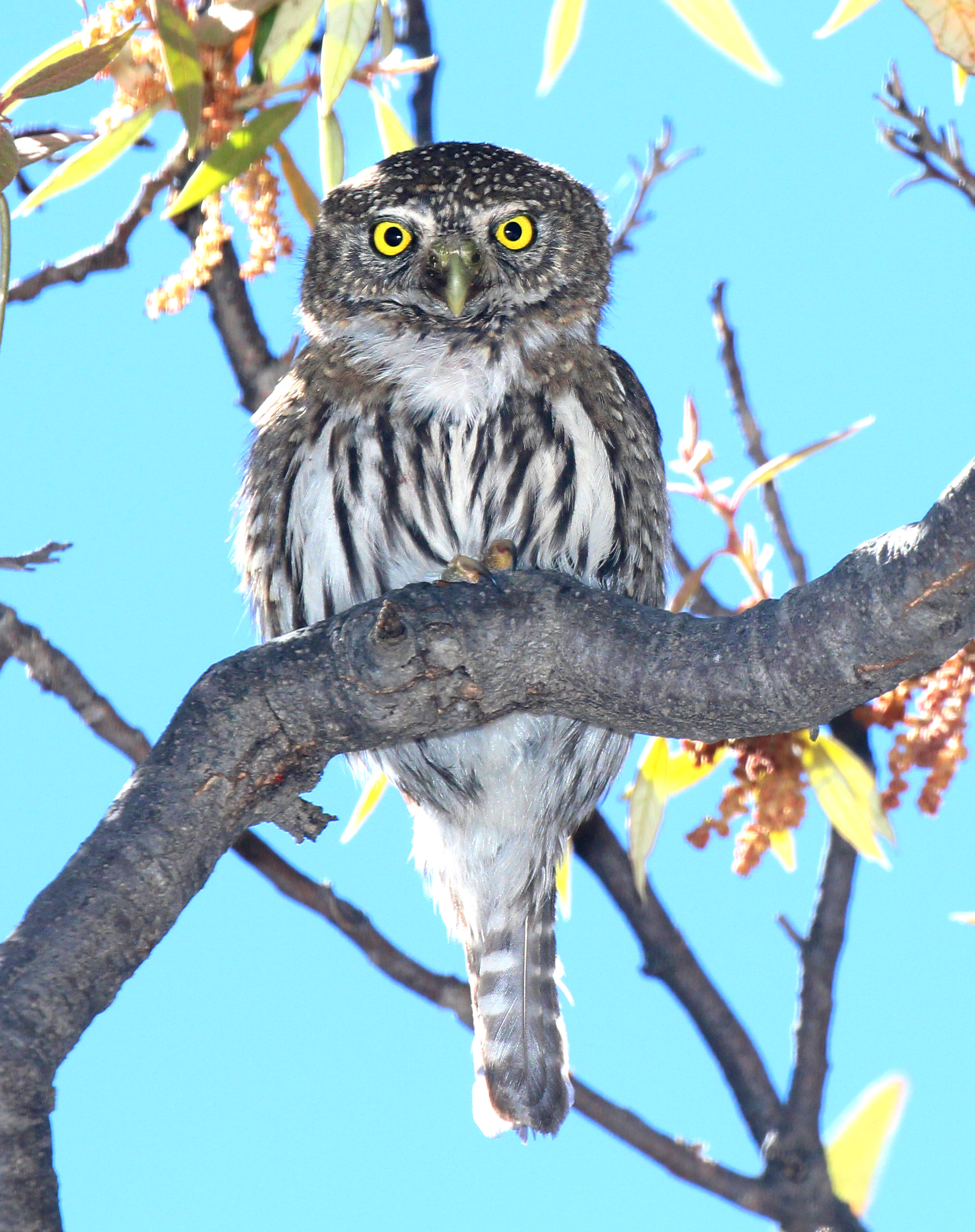 ABA AREA BIRDS: My Photo "Life List" ARIZONA - BIRDS of SANTA CRUZ County